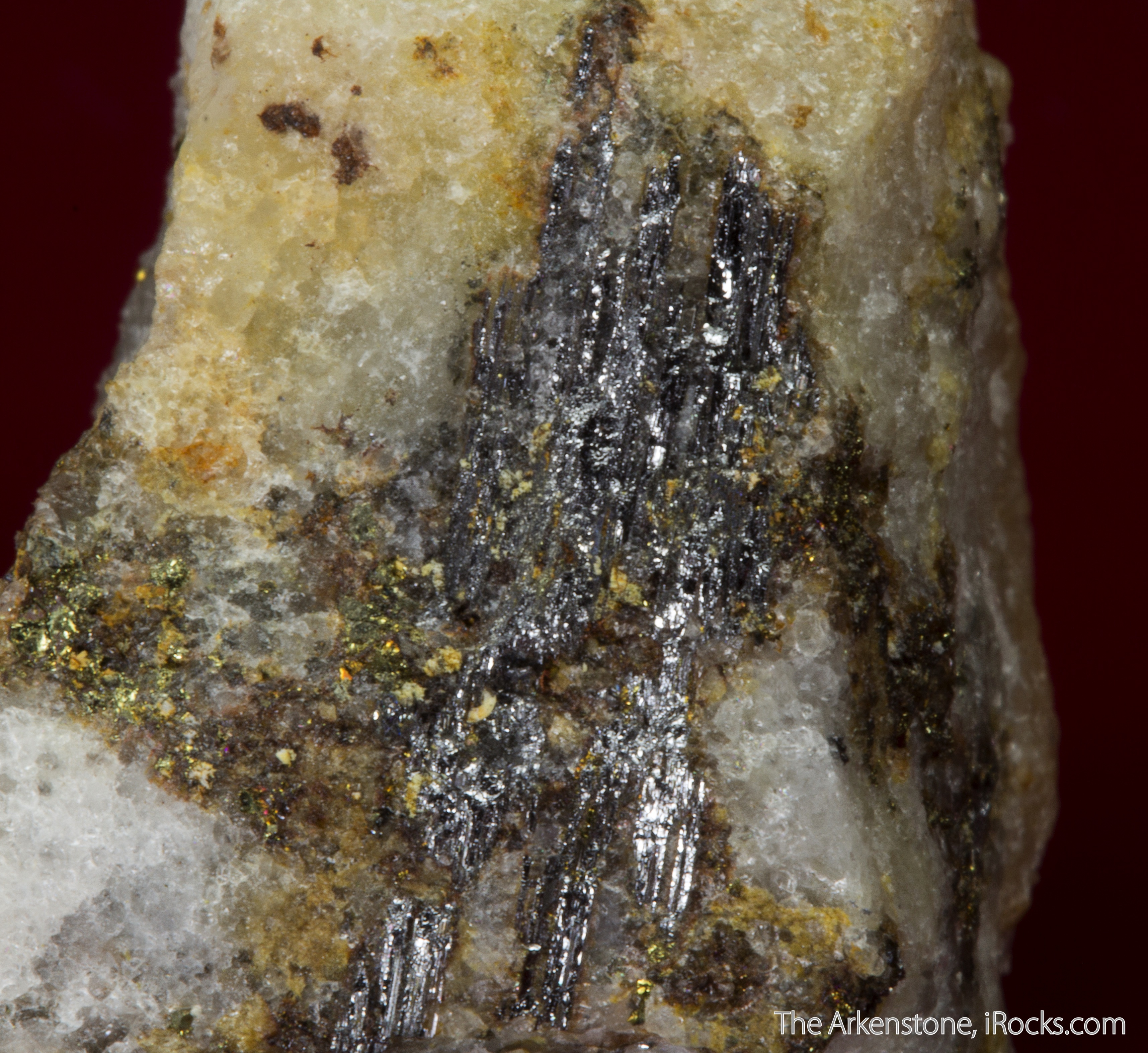 3.0 x 2.0 x 1.5 cm. Silvery-gray, fan-shaped aggregates of acicular crystals of the rare sulfide eclarite on white quartz with chalcopyrite. Very good specimen from the type locality. Ex. Paulo Matioli collection.